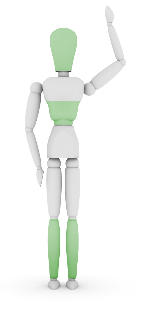 Target areas for Canne de Combat